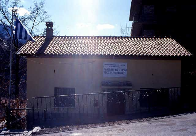 External view, image from the Museum of Folklore and History, Drosopigi, West Macedonia, Greece